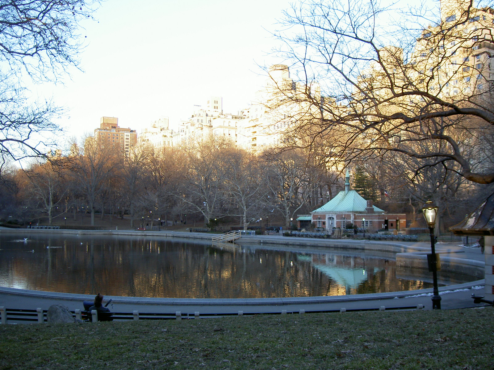 Conservatory Water, the sailboat pond in Central Park, New York City.